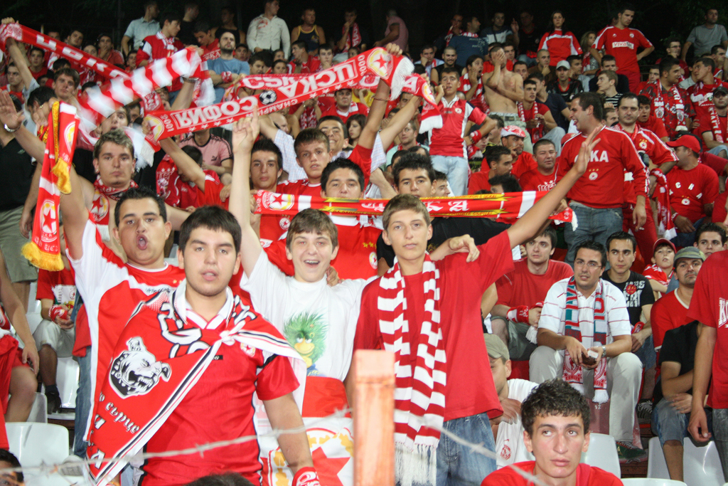 CSKA SOFIA RED HEARTS ULTRA GROUP FANS - AT G POWER STAND at BULGARIAN ARMY STADIUM!